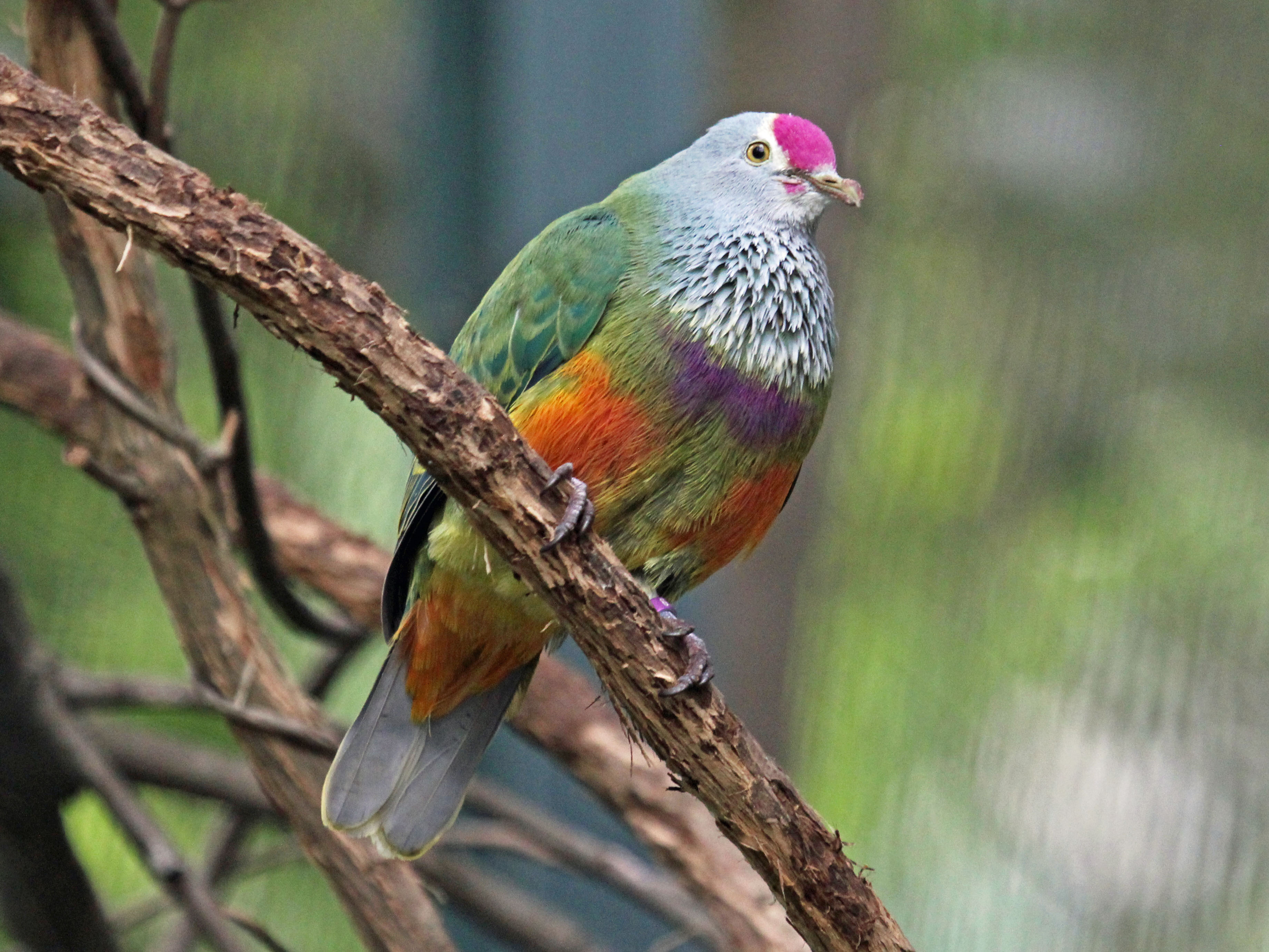 Mariana Fruit Dove (Ptilinopus roseicapilla) - San Diego Zoo